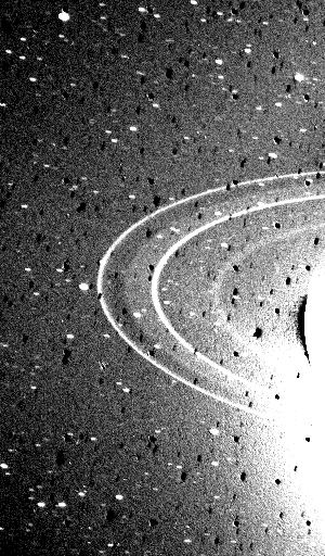 This is a 591‑second exposure by the Voyager 2 wide-angle camera taken through a clear filter. All the known rings of Neptune are visible. The bright glare is due to overexposure of Neptune's crescent, bright patches are stars, dark patches probably image processing artifacts.